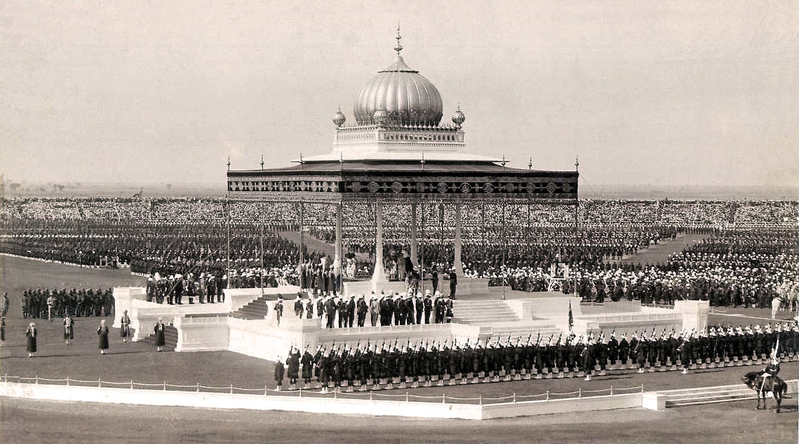 The image shows the durbar at Delhi of King George V and Queen Mary of Britain.